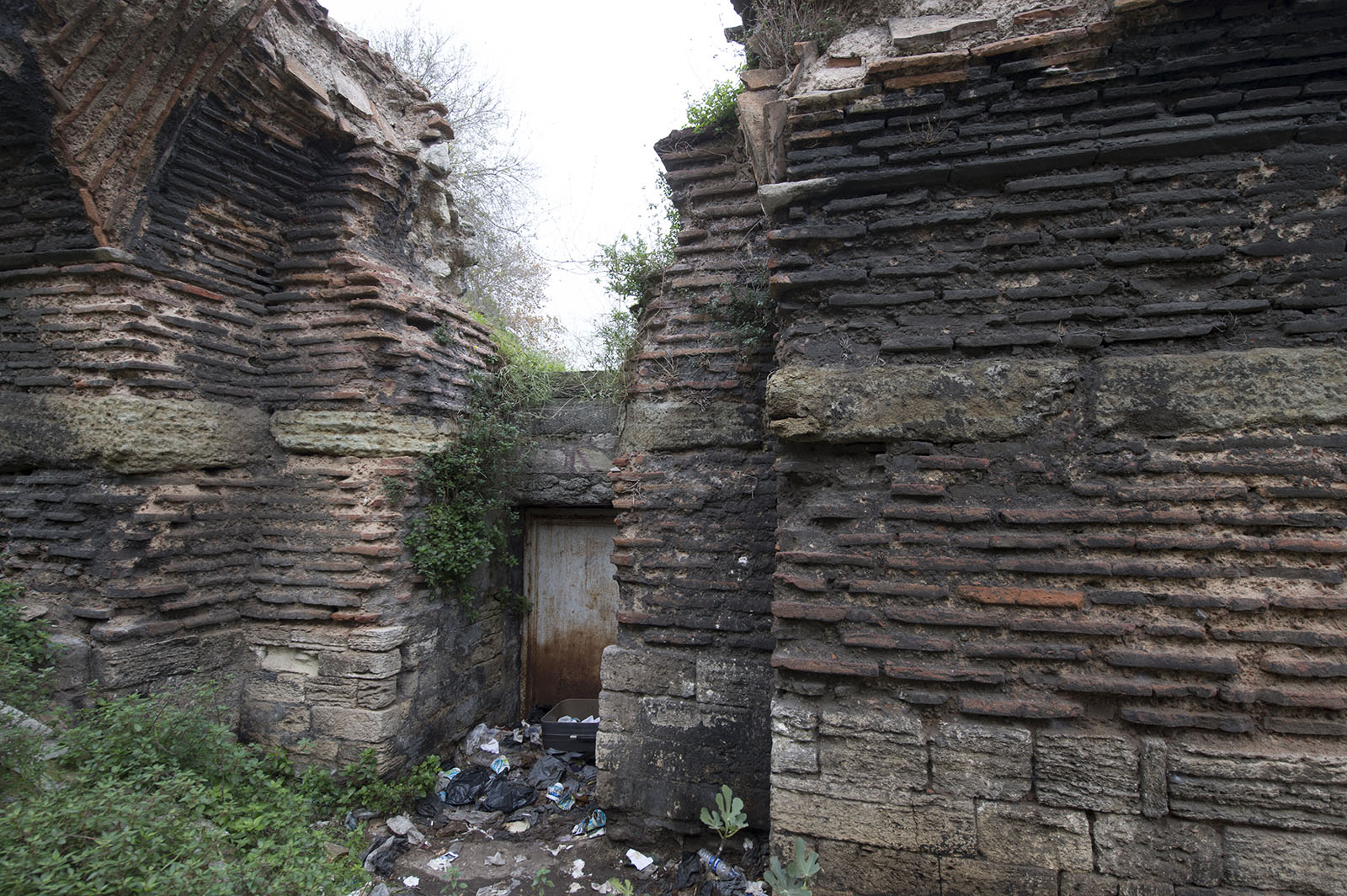 The area of the church is generally fenced off, but with such holes in the fence that often, but not always, it's possible to take pictures of what remains. It's hard for non-specialists to identify what's what.